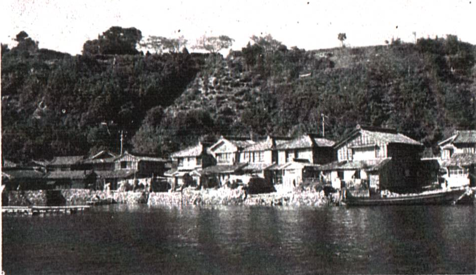 This is a landscape in Matoya, Matoya village, Shima district, Mie prefecture, Japan.